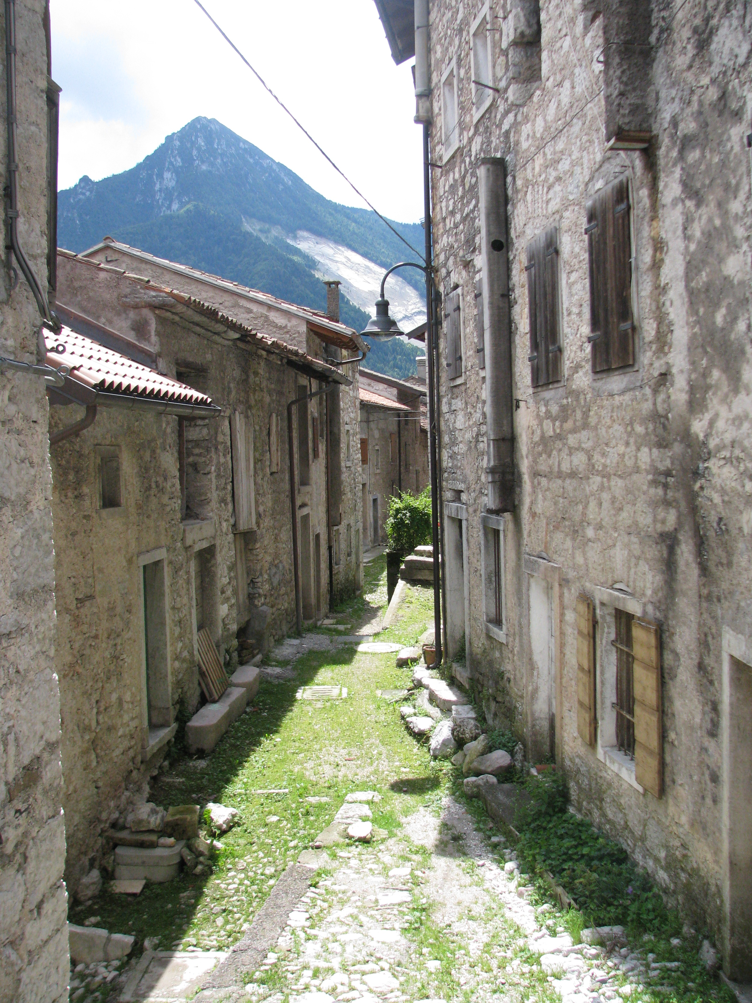 View of the historical center of Erto, in the Province of Pordenone